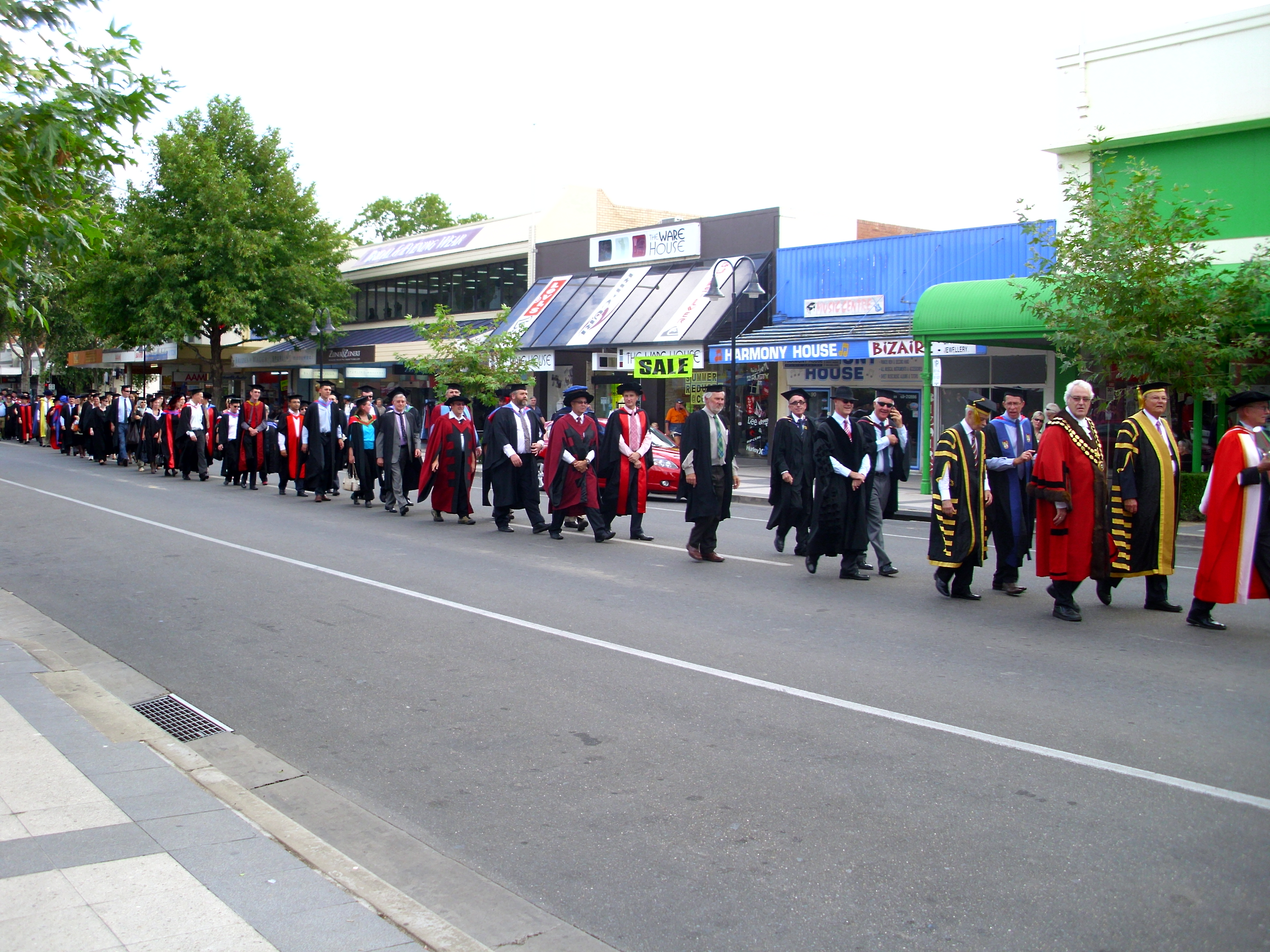 Charles Sturt University Town and Gown academic procession down Baylis Street.